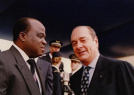 Congolese Prime minister André Milongo with French President Jacques Chirac.